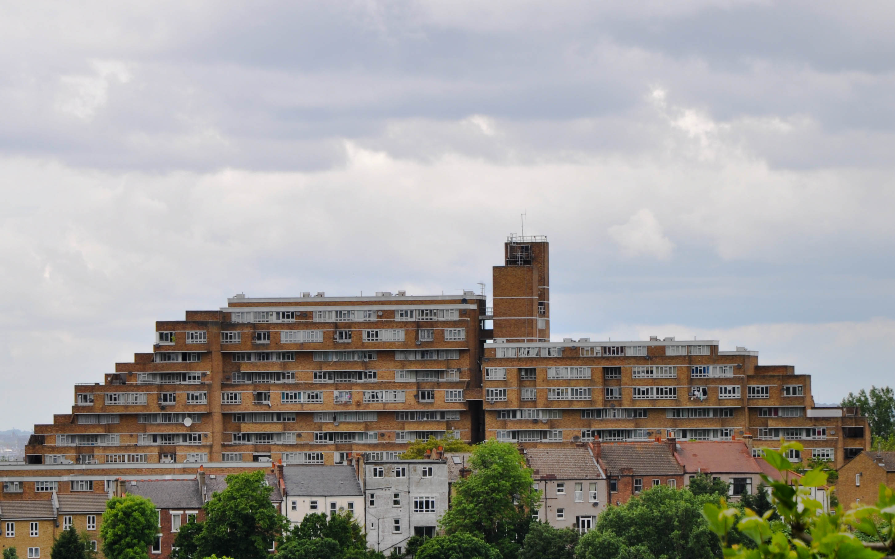 Dawson's Heights extra info Dawson's Heights social housing estate in Dulwich, a project which was described in The Observer as "one of the most remarkable housing developments in the country" - by architect Kate Macintosh